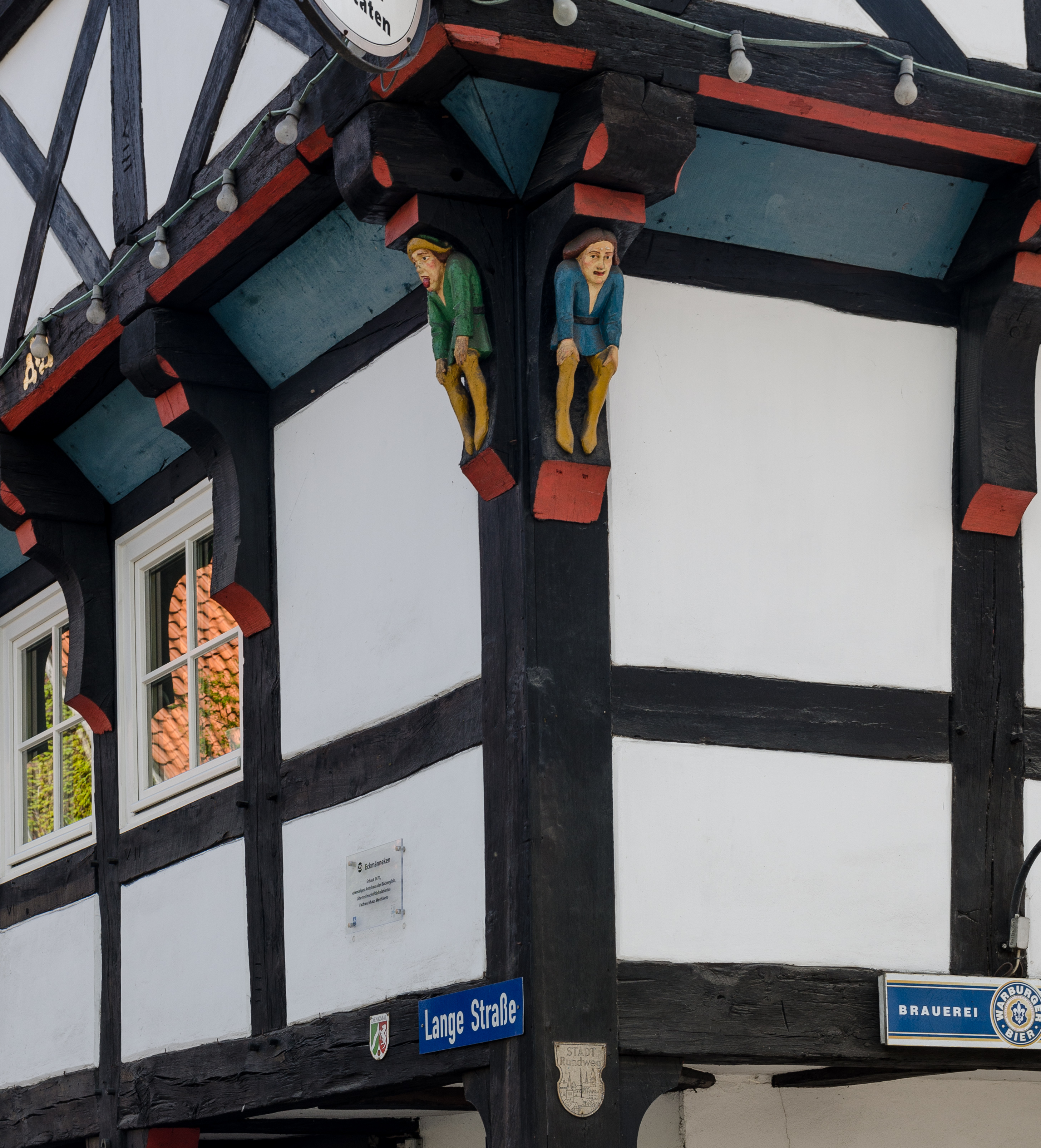 Eckmännecken (little man on the edge) on the Eckmännecken-House in Warburg oldest frame house of Westphalia